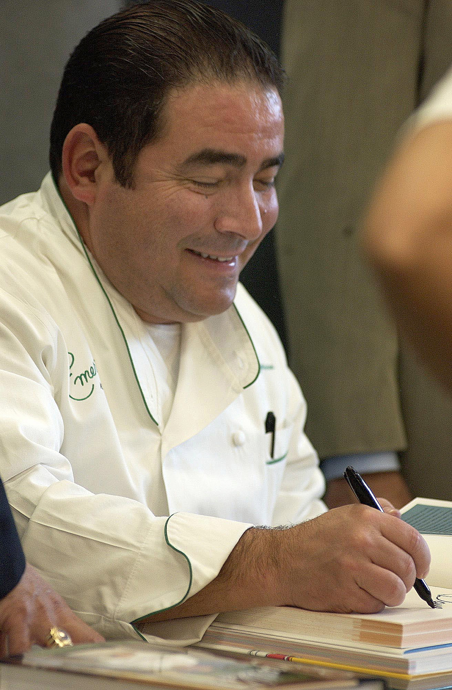 Emeril Lagasse, American celebrity chef, restaurateur, television personality, and writer. Photographed signing his cookbooks and interacting with fans during a book signing at the Fort Lewis, Wash., Post Exchange Oct. 12.